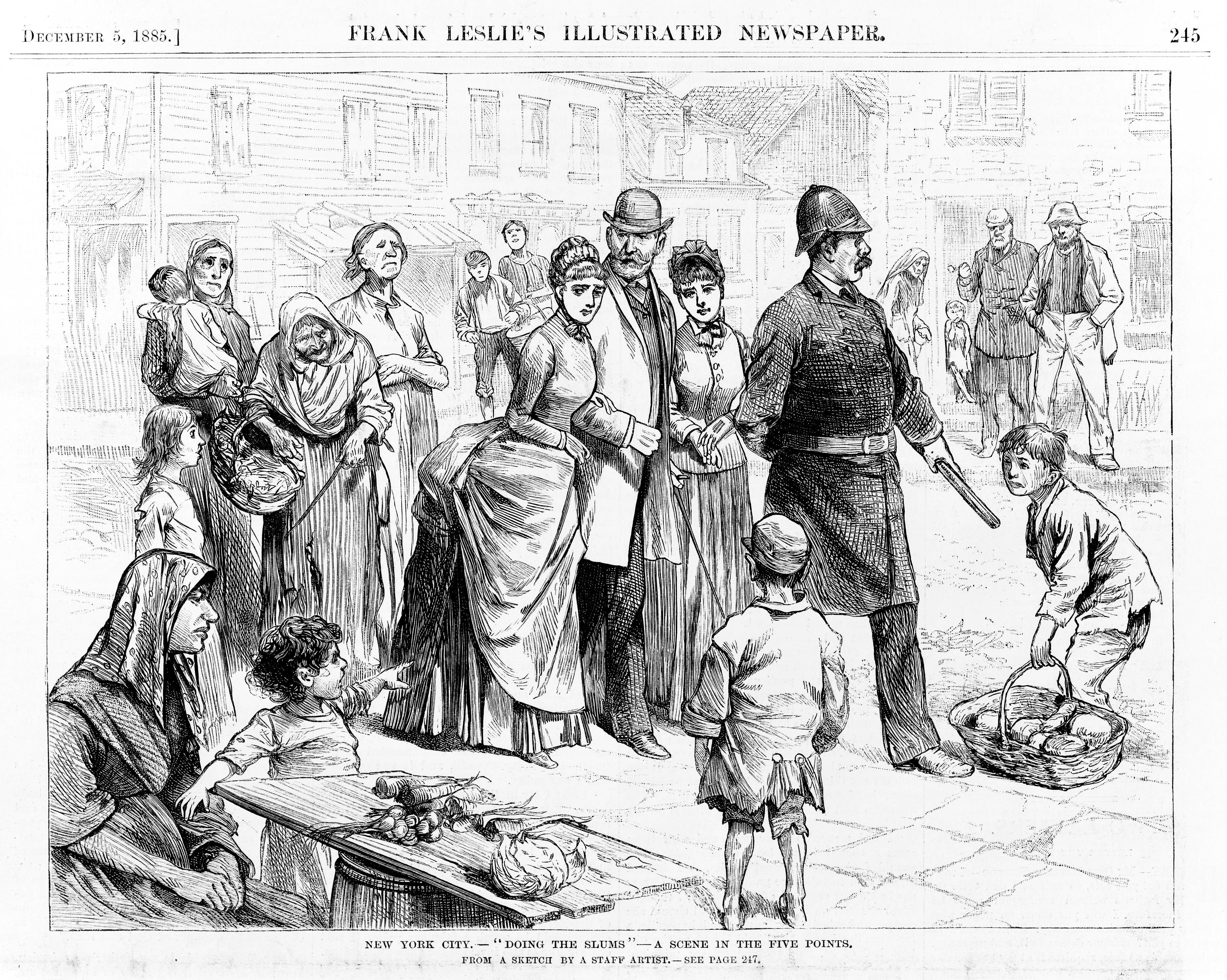 TITLE: New York City - "Doing the slums" - A scene in the Five Points / from a sketch by a staff artist. CALL NUMBER: Illus. in AP2.L52 1885 (Case Y) [P&P] REPRODUCTION NUMBER: LC-USZ62-122660 (b&w film copy neg.) SUMMARY: Policeman leading upper class people through the Five Points neighborhood. MEDIUM: 1 print : wood engraving. CREATED/PUBLISHED: 1885. NOTES: Illus. in: Frank Leslie's illustrated newspaper, v. 61, (1885 Dec. 5), p. 245. SUBJECTS: Police--New York (State)--New York--1880-1890. Poor persons--New York (State)--New York--1880-1890. Slums--New York (State)--New York--1880-1890. Upper class--New York (State)--New York--1880-1890. FORMAT: Periodical illustrations 1880-1890. Wood engravings 1880-1890. REPOSITORY: Library of Congress Prints and Photographs Division Washington, D.C. 20540 USA DIGITAL ID: (b&w film copy neg.) cph 3c22660 CARD #: 99400238